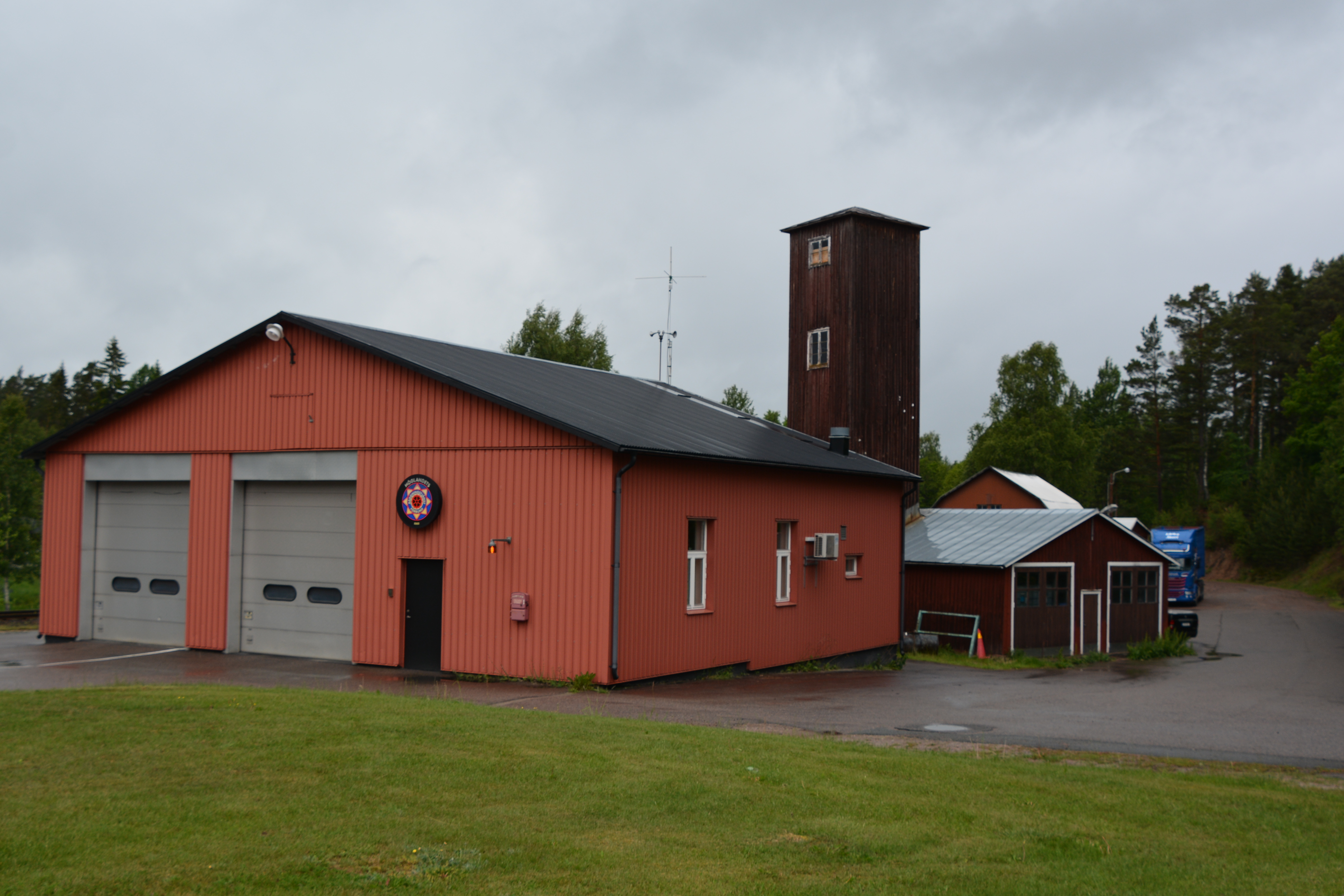 Nya och gamla brandstationen i Kvillsfors